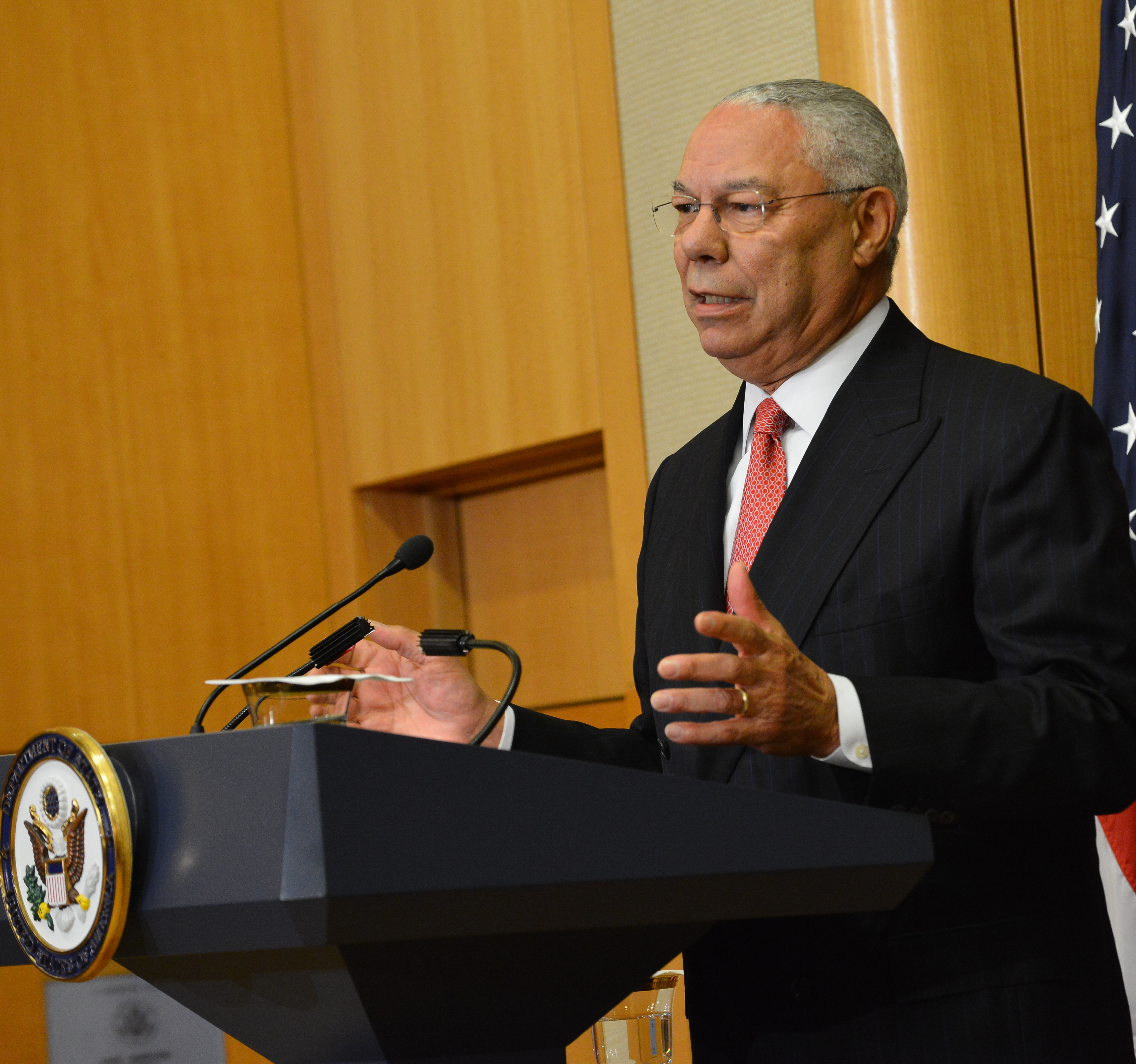 Former Secretary of State Colin L. Powell delivers remarks with Secretary of State John Kerry and former Secretaries of State Henry A. Kissinger, James A. Baker, III, Madeleine K. Albright, and Hillary Rodham Clinton at the Groundbreaking Ceremony of the U.S. Diplomacy Center at the U.S. Department of State in Washington, DC on September 3, 2014. [State Department photo/ Public Domain]